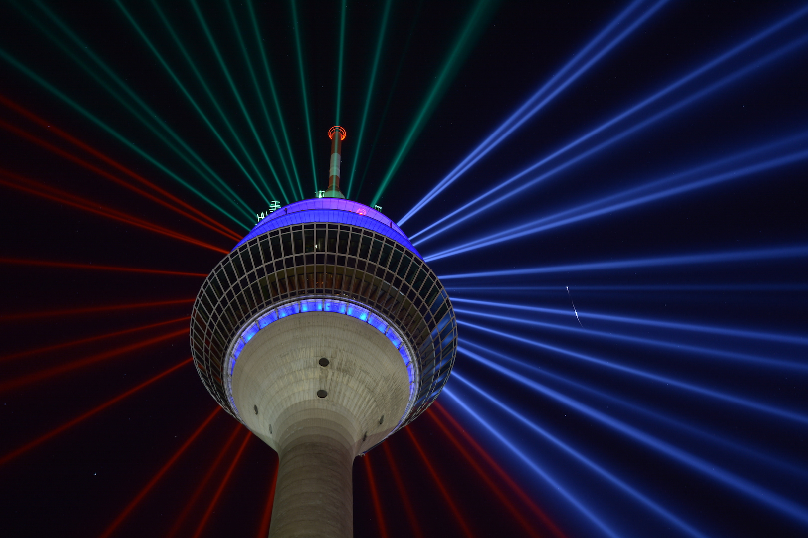 Rhine-Tower during 70th Anniversary Party of the State of NRW with comet